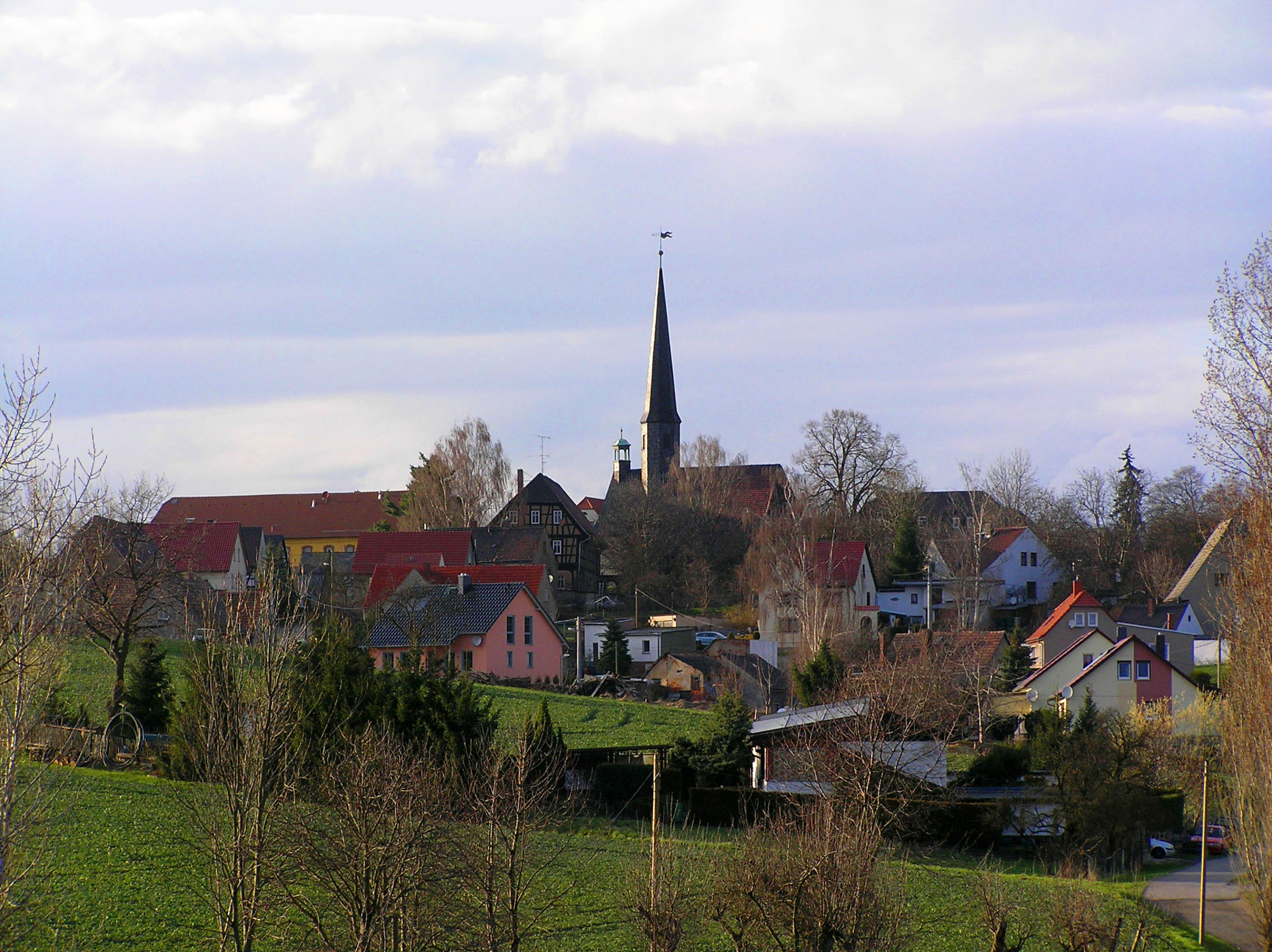 Mehna (South view)